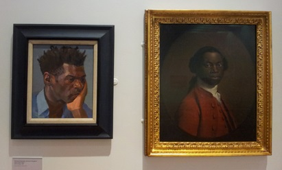 Nahem Shoa's Portrait of Desmond Haughton in Royal Albert Memorial Museum and Art Gallery.